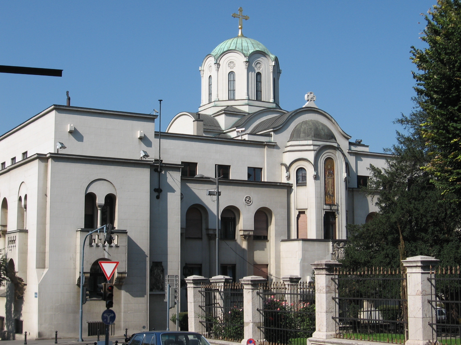 Patriarcate - Belgrade